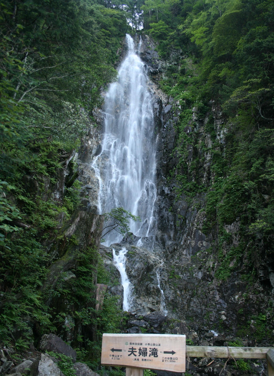 Meoto waterfall male on Sira river, Nakatsugawa, Gifu, Japan.